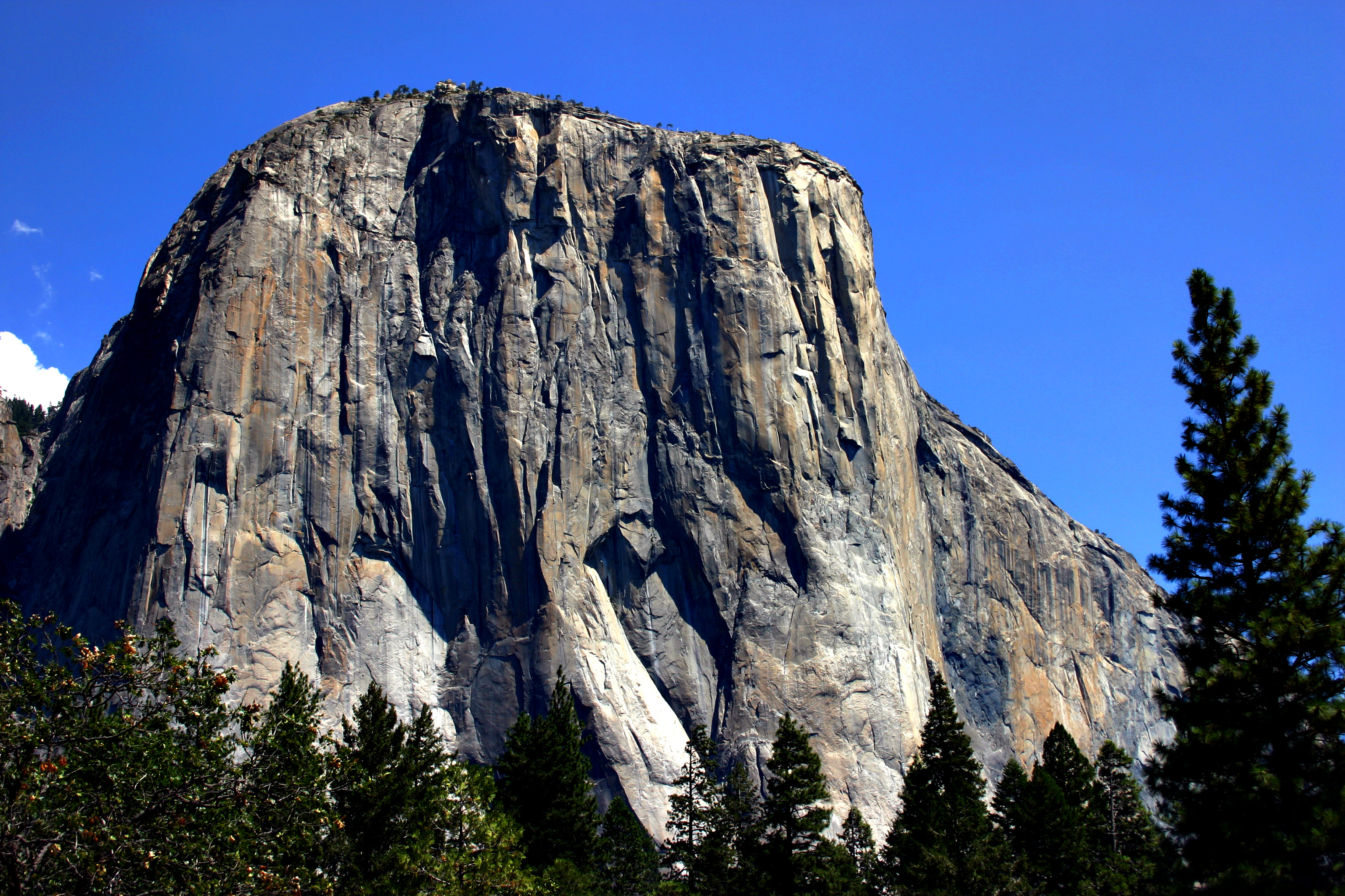 El Capitan in Yosemite National Park viewed from the Valley Floor.